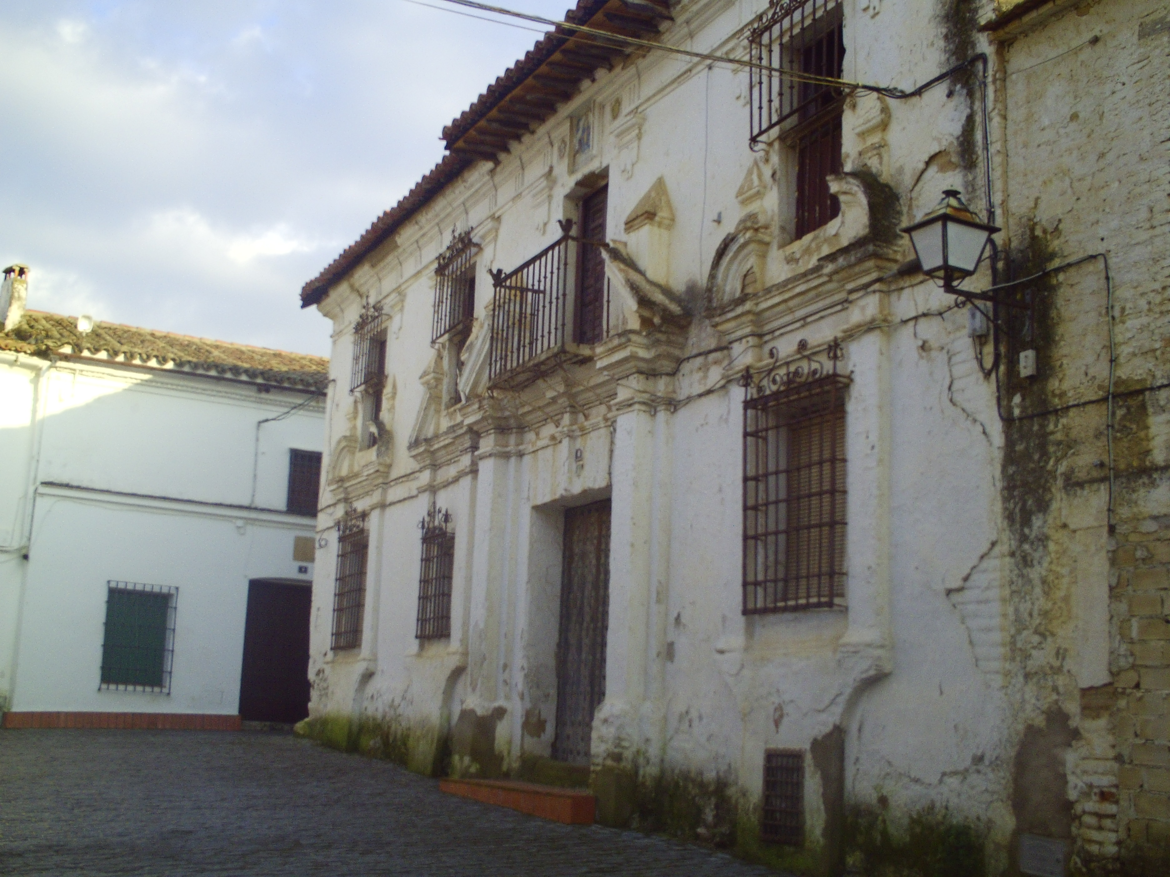 House of Chacones